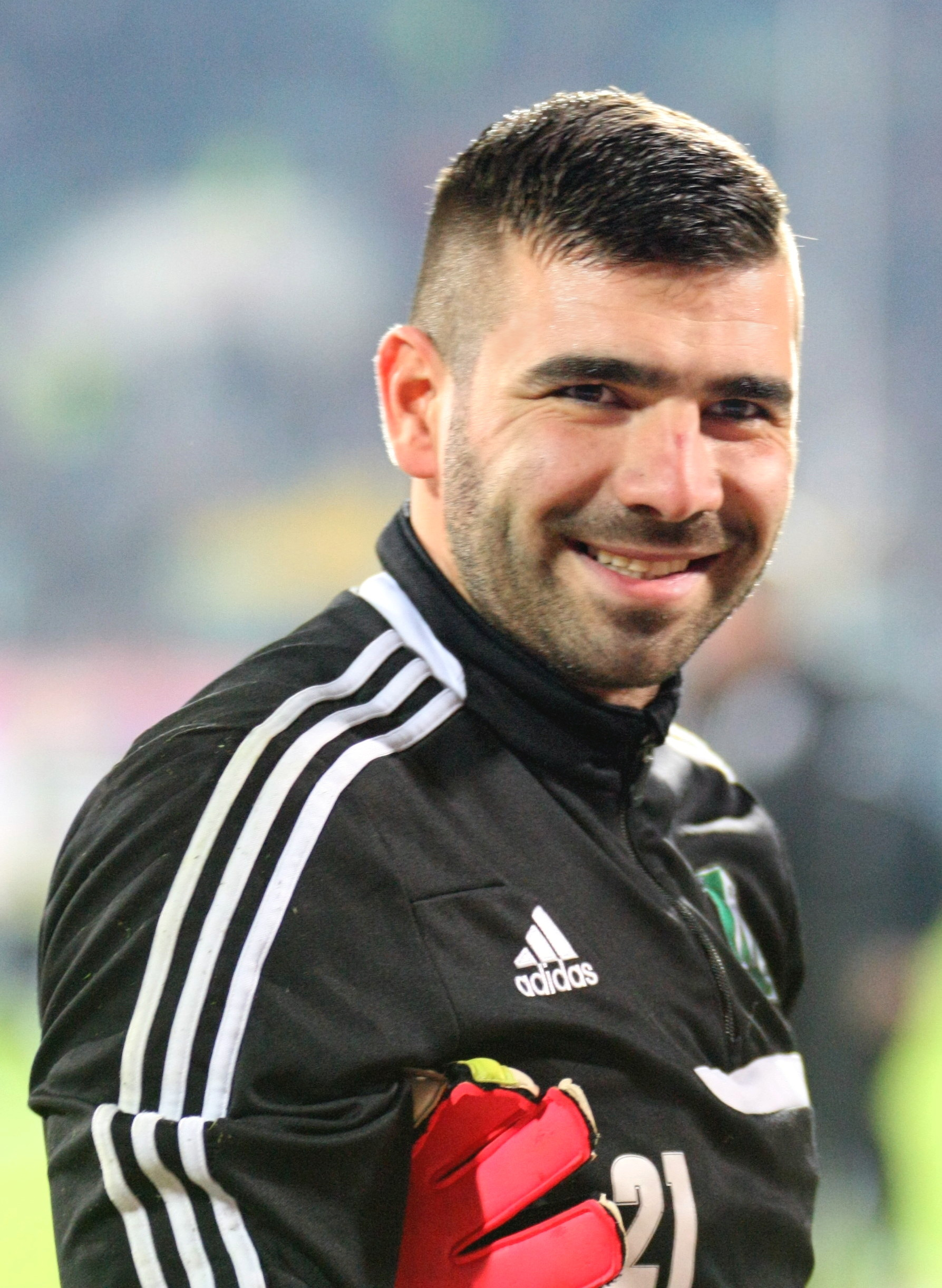 Vladislav Boykov Stoyanov (Bulgarian: Владислав Стоянов; born 8 June 1987 in Pernik) is a Bulgarian footballer who plays as a goalkeeper for Ludogorets Razgrad and the Bulgarian national football team.